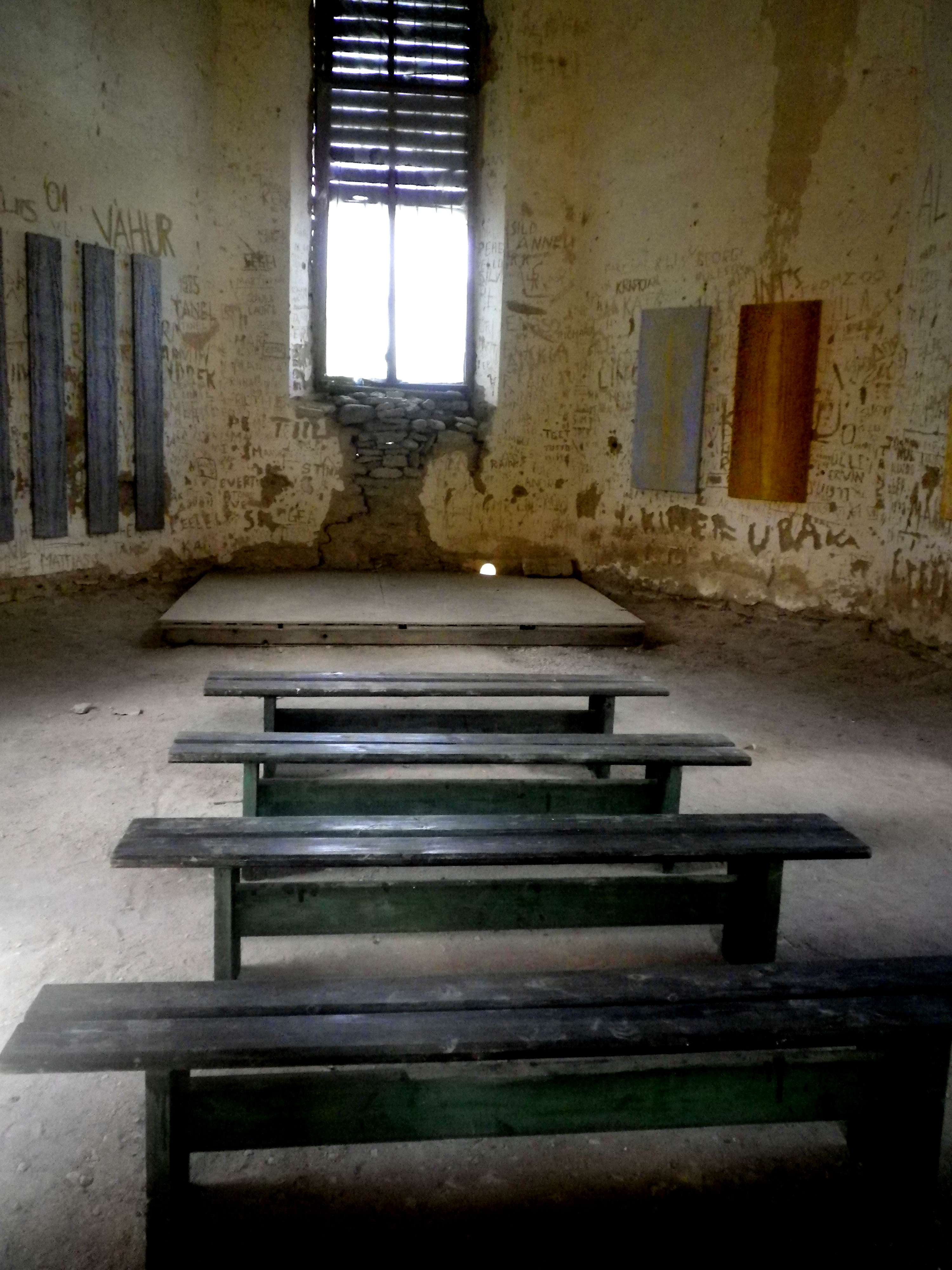 Interior of Paluküla church, Hiiumaa, Estonia